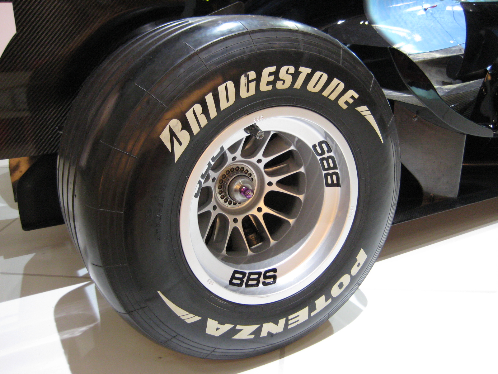 Bridgestone Potenza F1 Rear Tire and BBS Wheel on Honda RA107